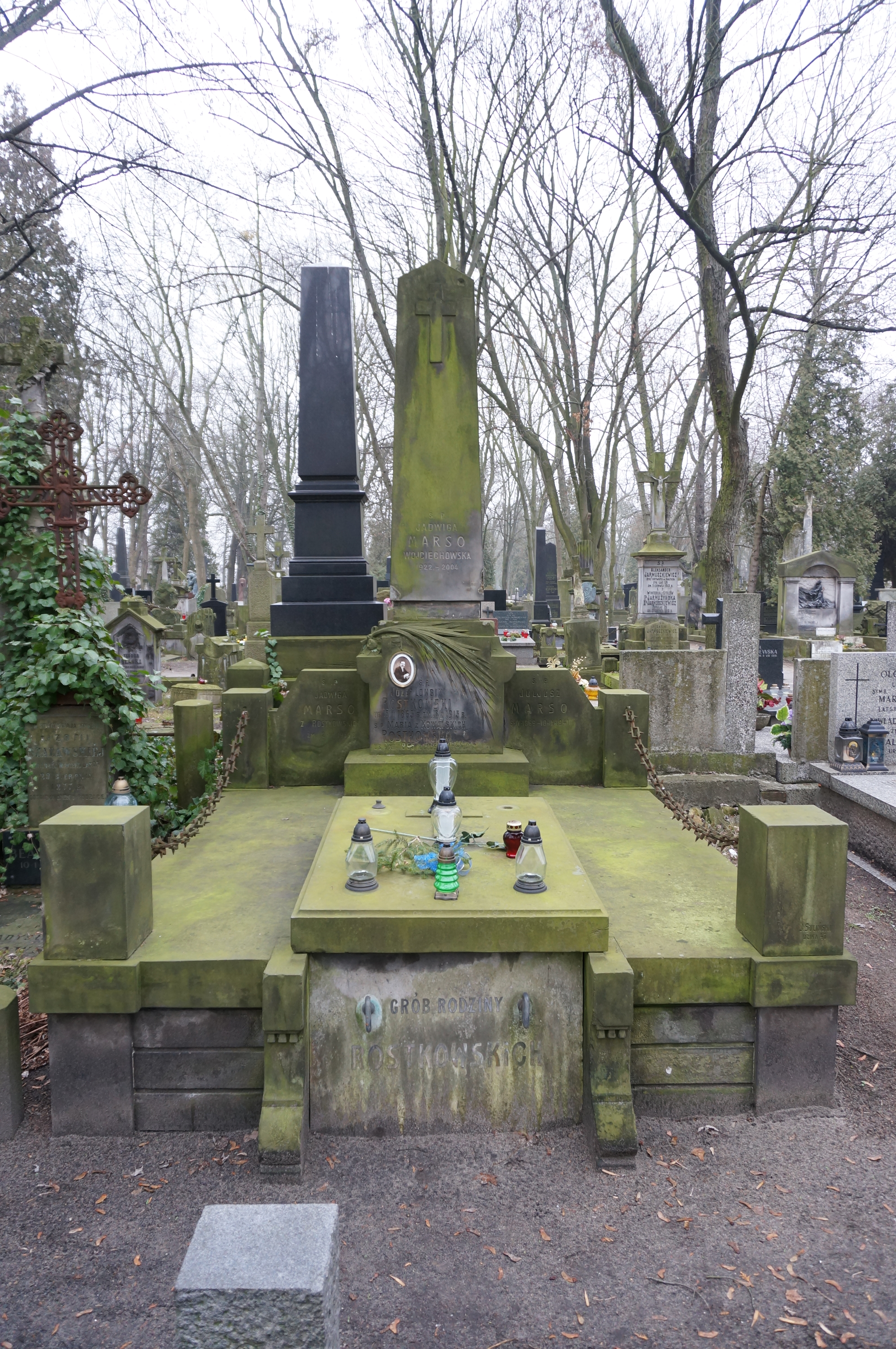 The grave of Jadwiga Marso at the Powązki Cemetery (section 67, row 4, grave 27, 28)